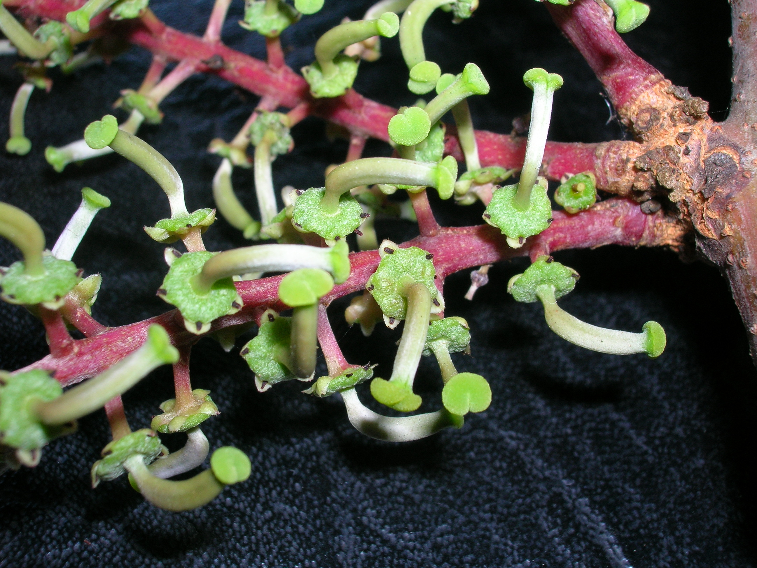 Ceratonia siliqua (leaves and flowers). Location: Oahu, Keolu